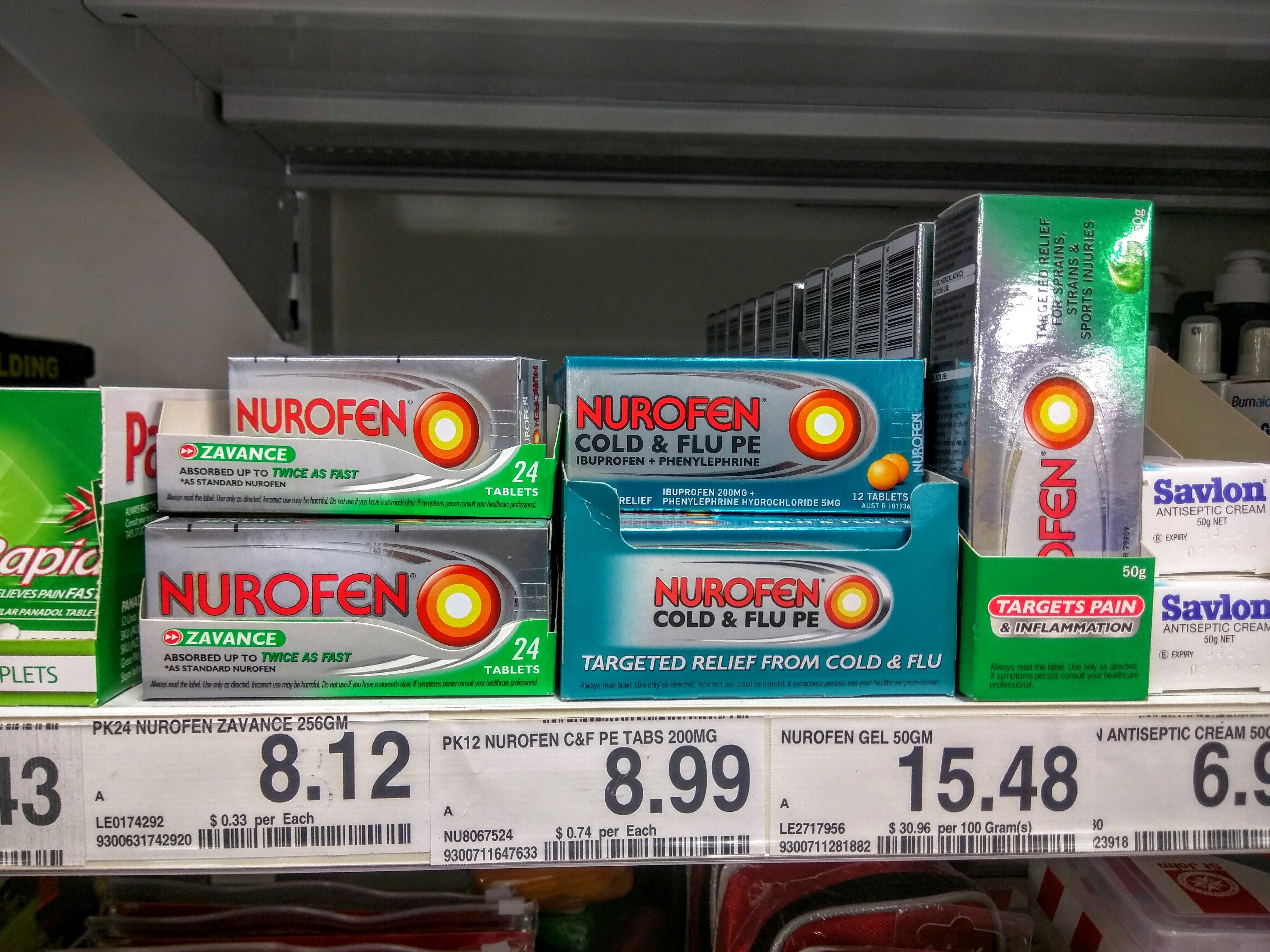 Nurofen tablets on pharmacy shelf